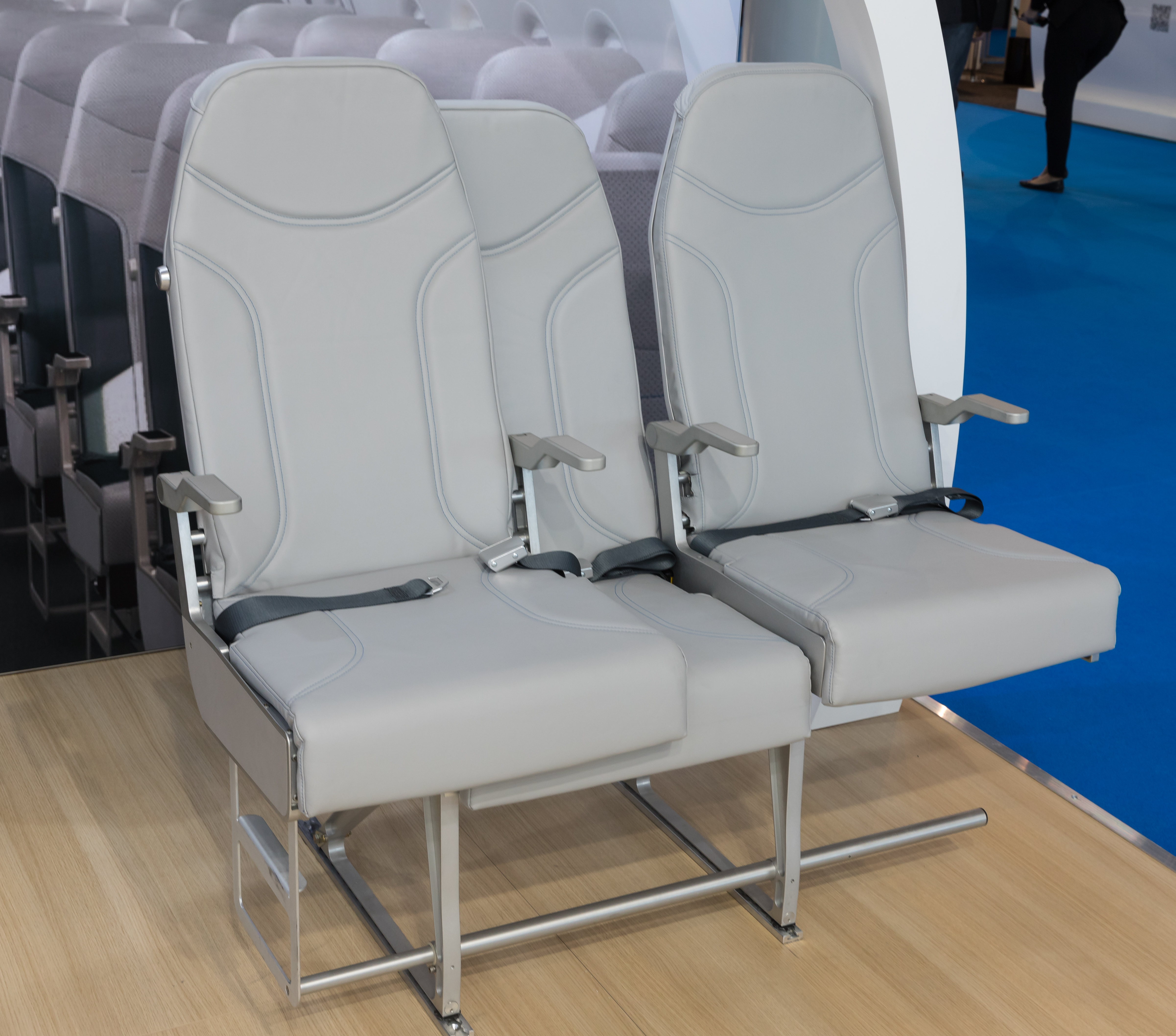 Passenger Experience Week Hamburg 2018